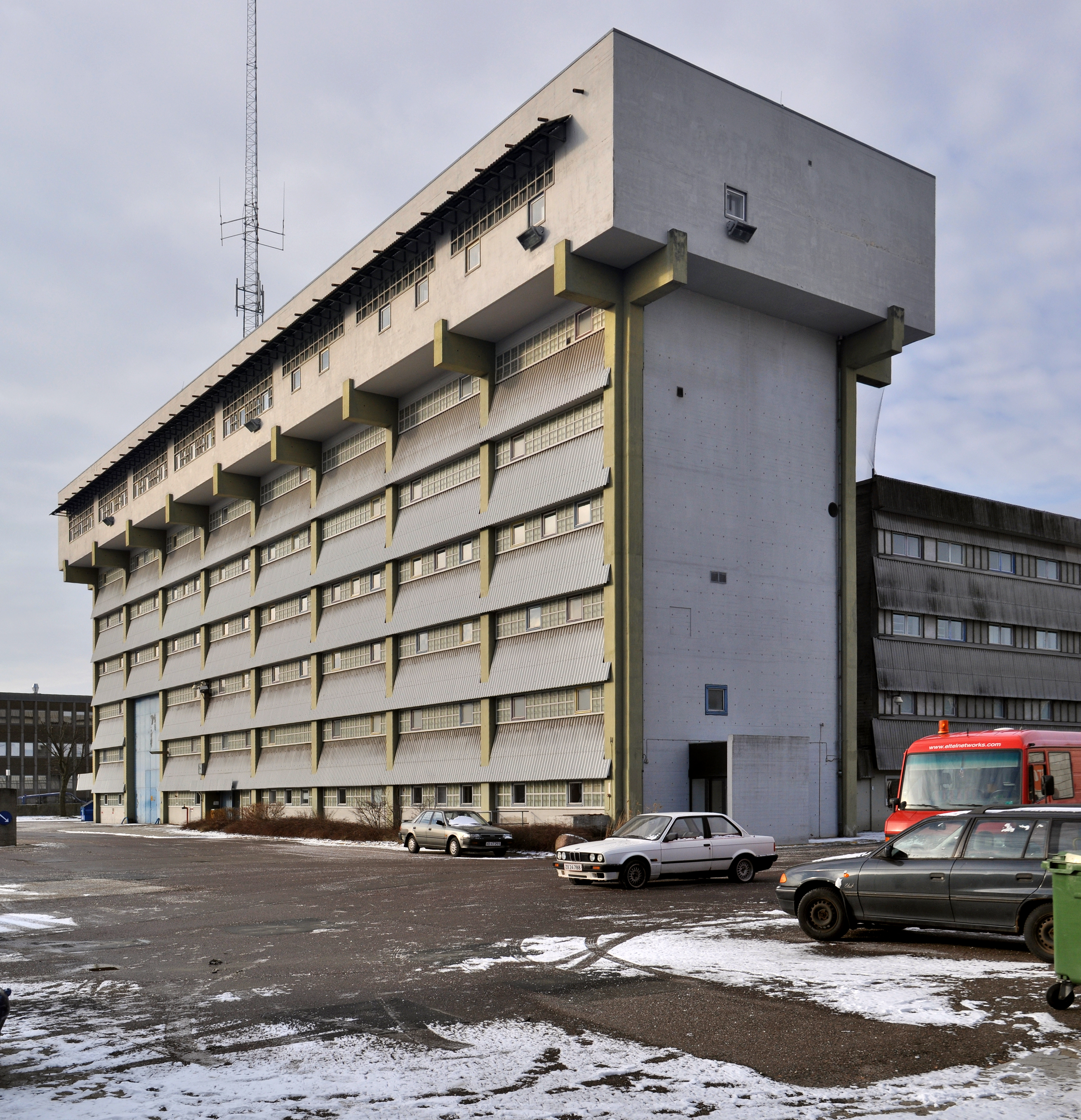 Bellahøj transformer station (Bellahøj koblingsstation), Copenhagen, Denmark; constructed by architect Hans Chr. Hansen (1901–1978)